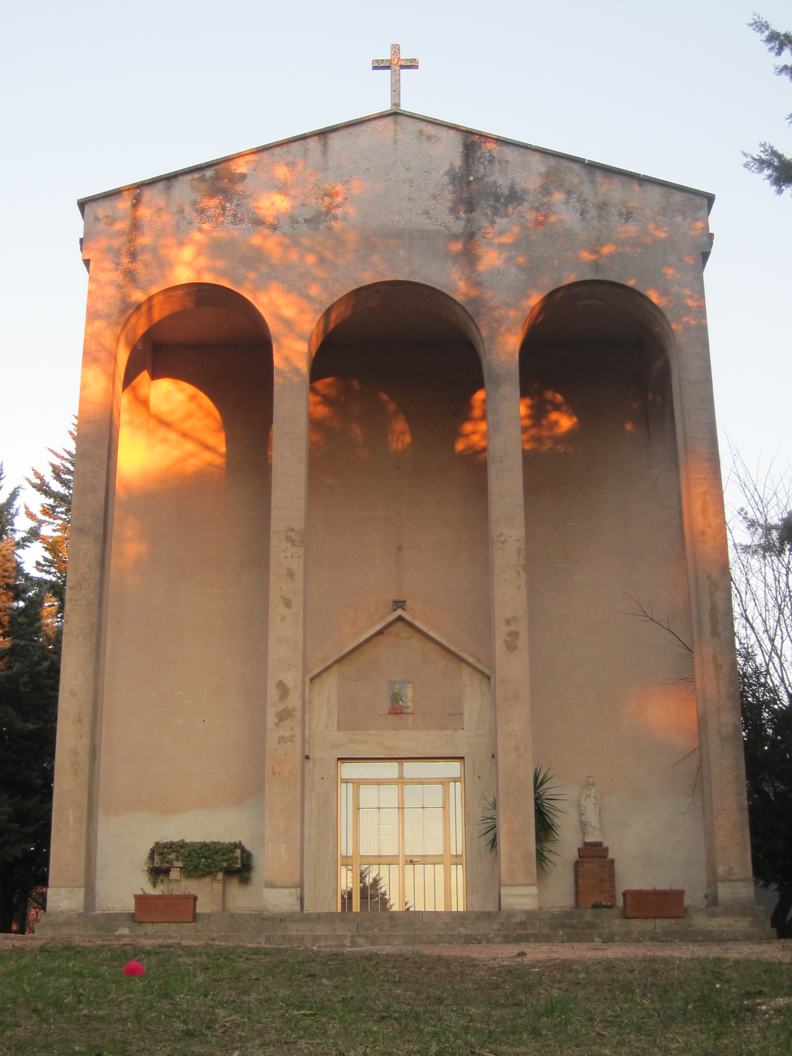 Church of Santa Barbara, Niccioleta (GR)